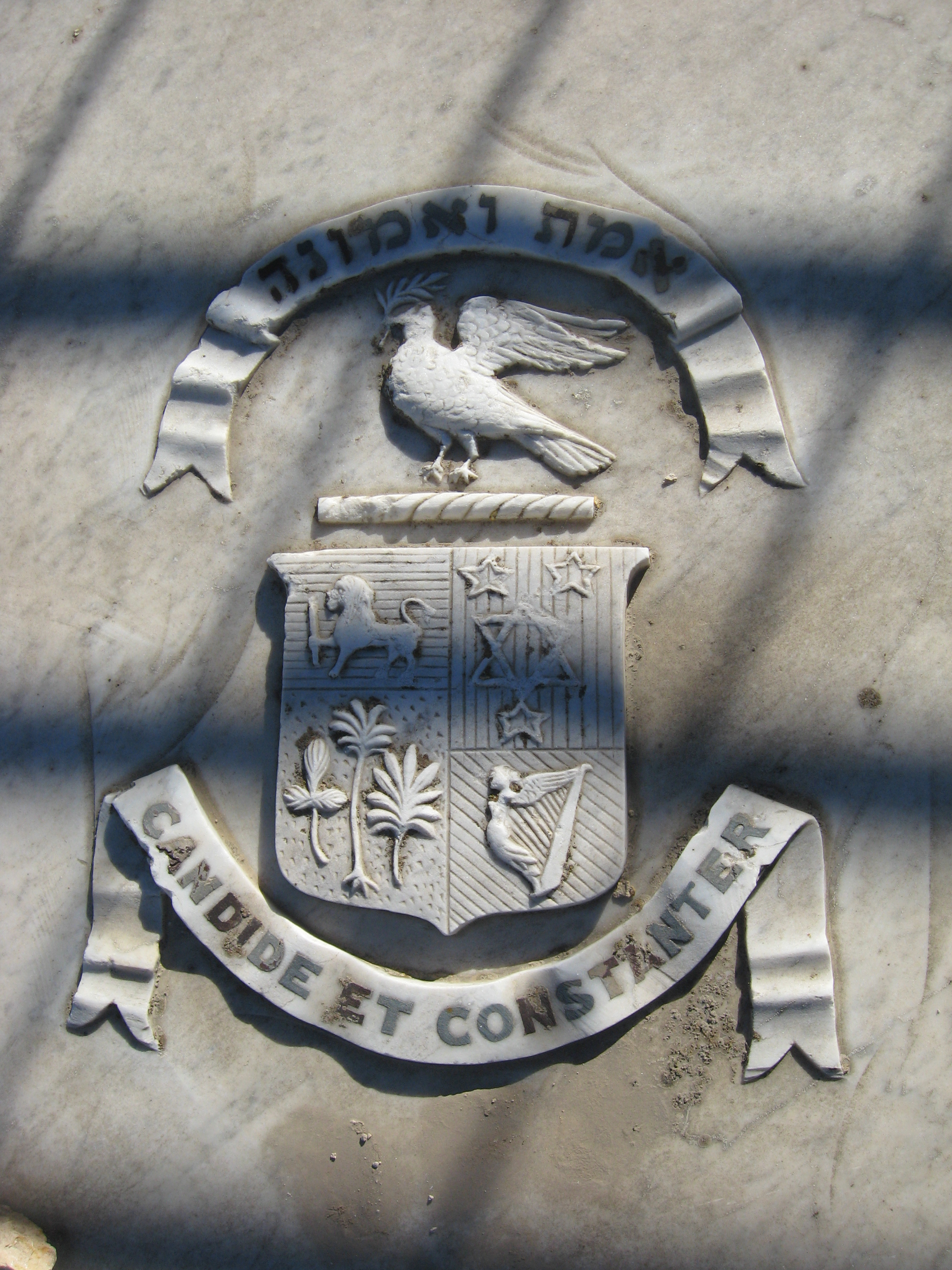 coat of arms on the tombstone of Saliman David Sassoon, Mount of Olives cemetery. Latin motto: candide et constanter.